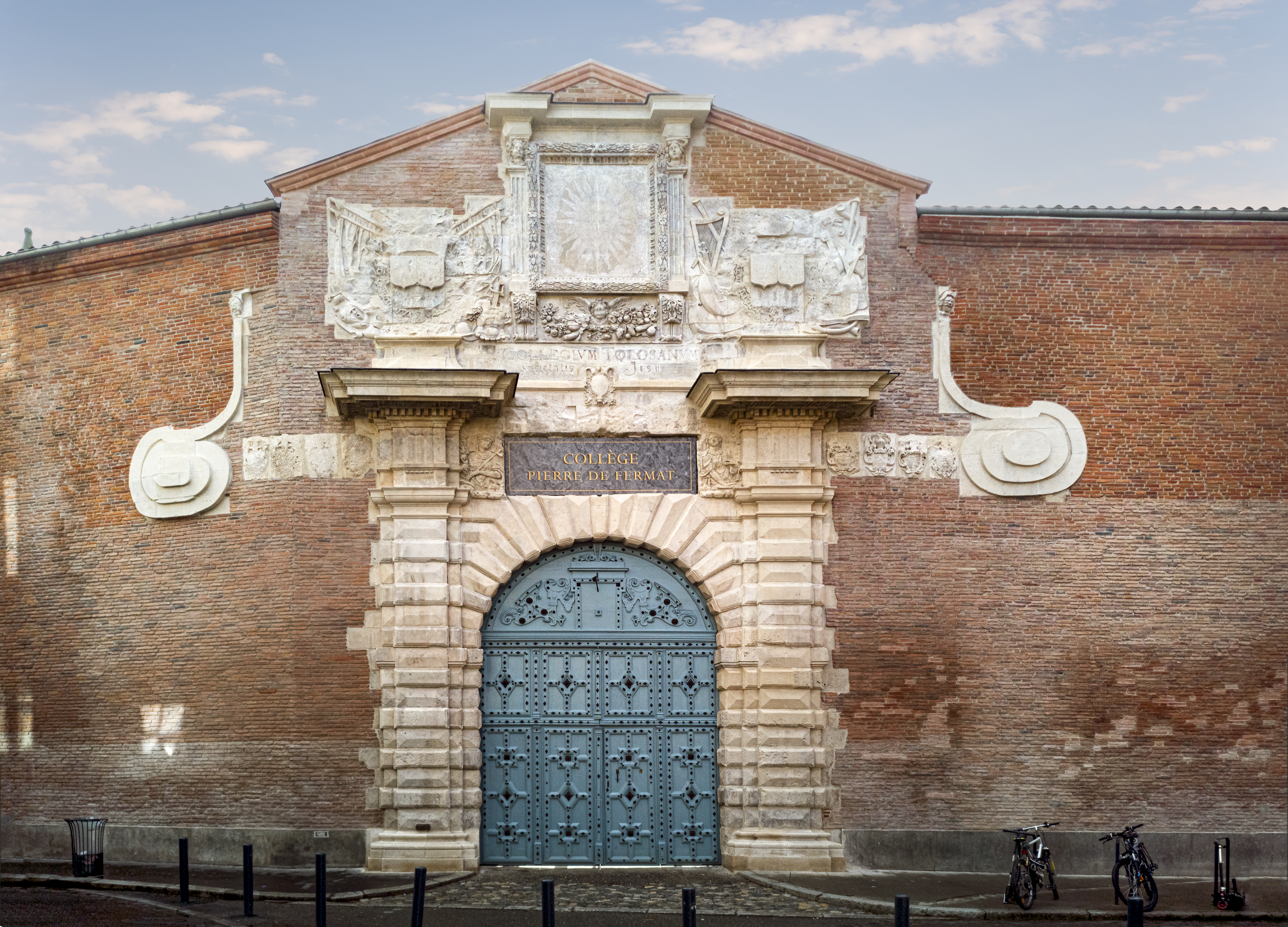 Entrance of Pierre de Fermat College in Joseph-Lakanal's Street Toulouse - 1605